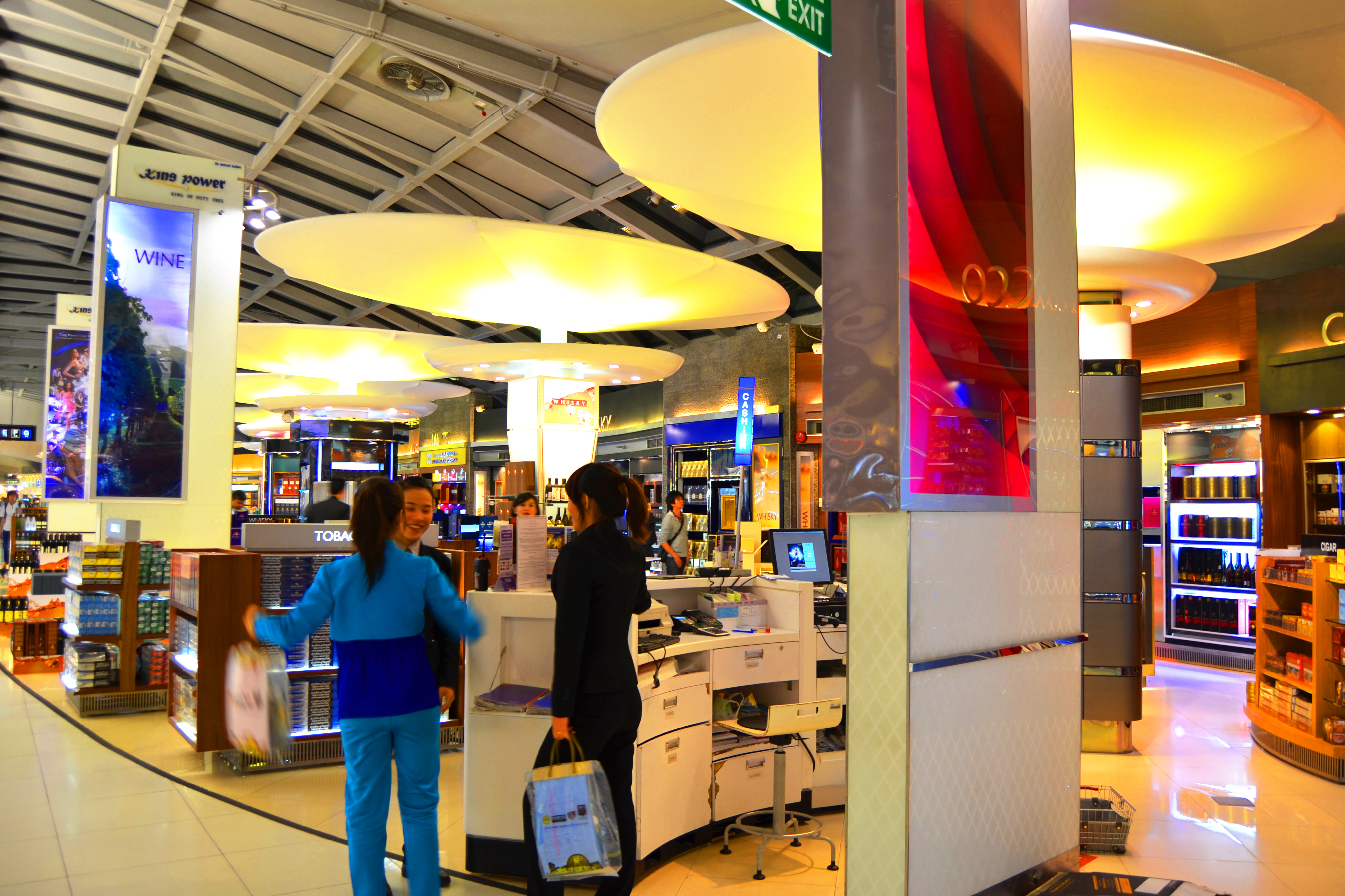 Suvarnabhumi Airport Inside